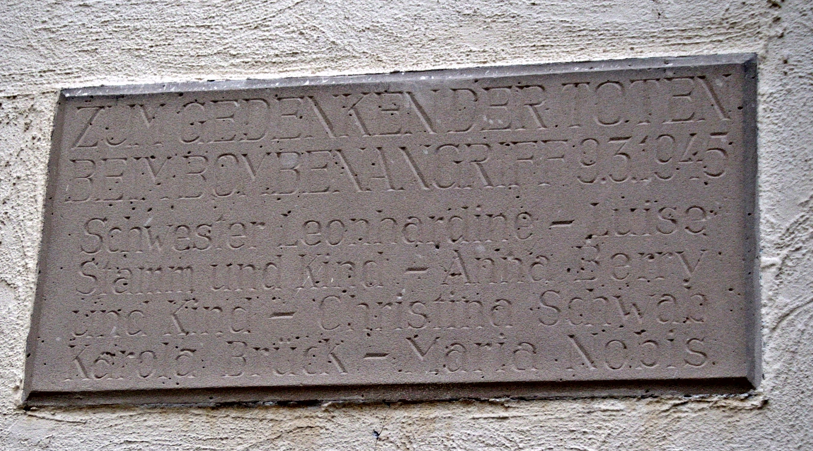 Deidesheim Spital Gedenkstein Fliegerangriff 1945